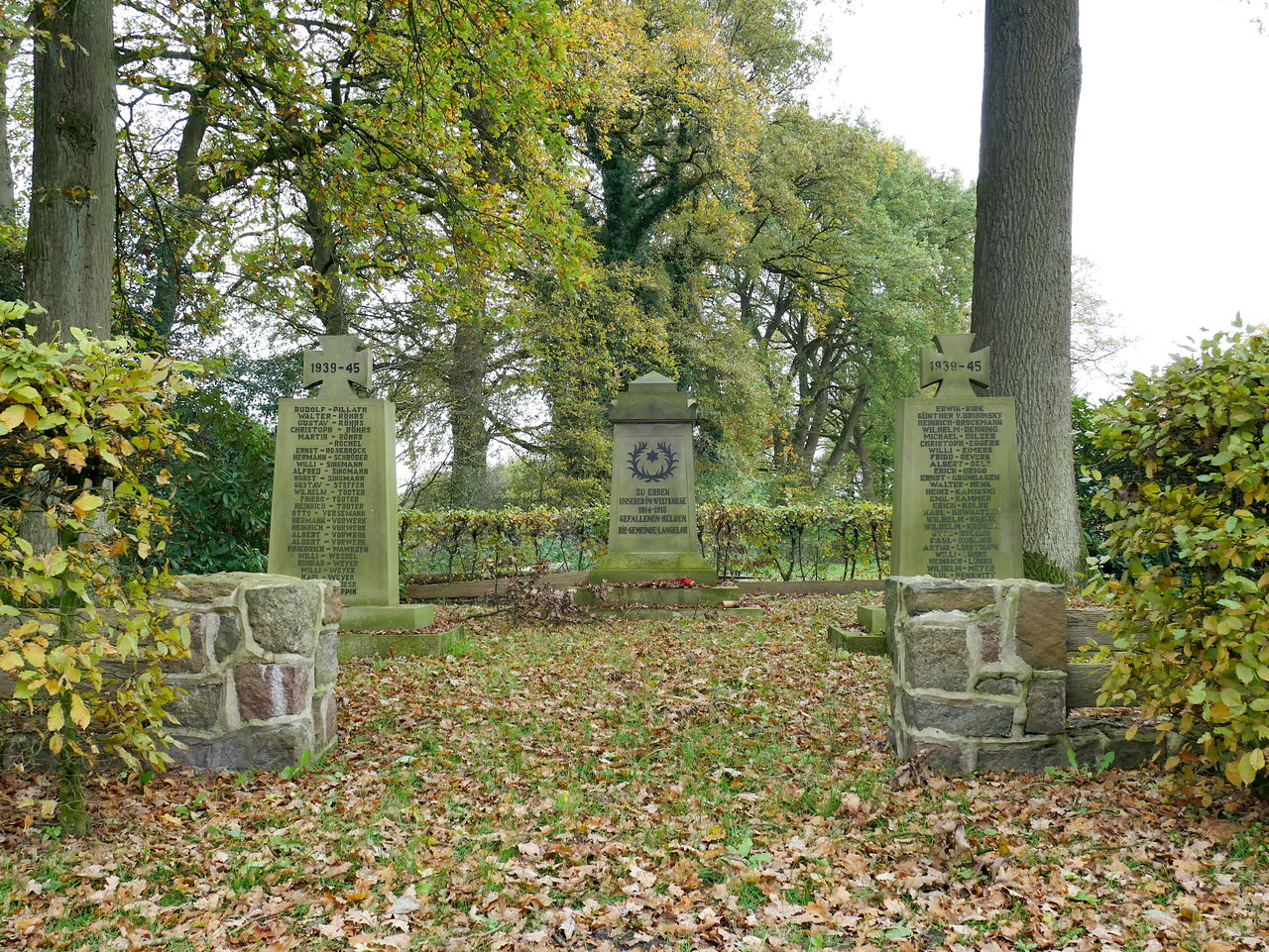 War memorial in Langeloh, Schneverdingen